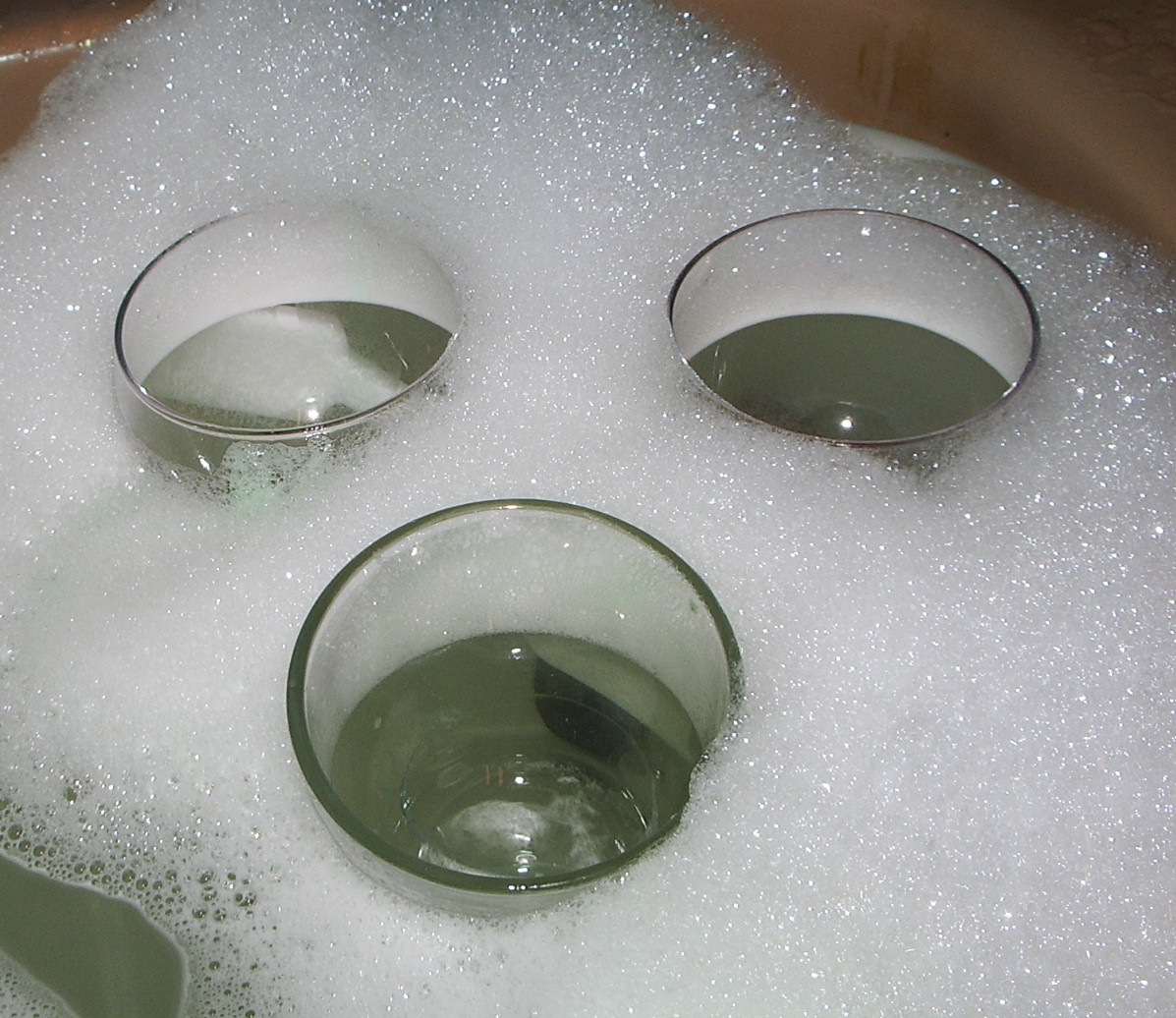 It's amazing what you can do after three glasses of wine.